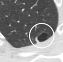 Original caption: A 51-year-old woman with myelitis transversa presented on CT with a cystic airspace with mural nodule. Axial CT-image in lung window setting shows a subpleural cystic airspace with a mural nodule with somewhat thin, bandlike morphology. The lesion was found suspicious for a lung cancer associated with cystic airspaces. Lobectomy was performed and confirmed the malignant aetiology showing a poorly differentiated adenocarcinoma